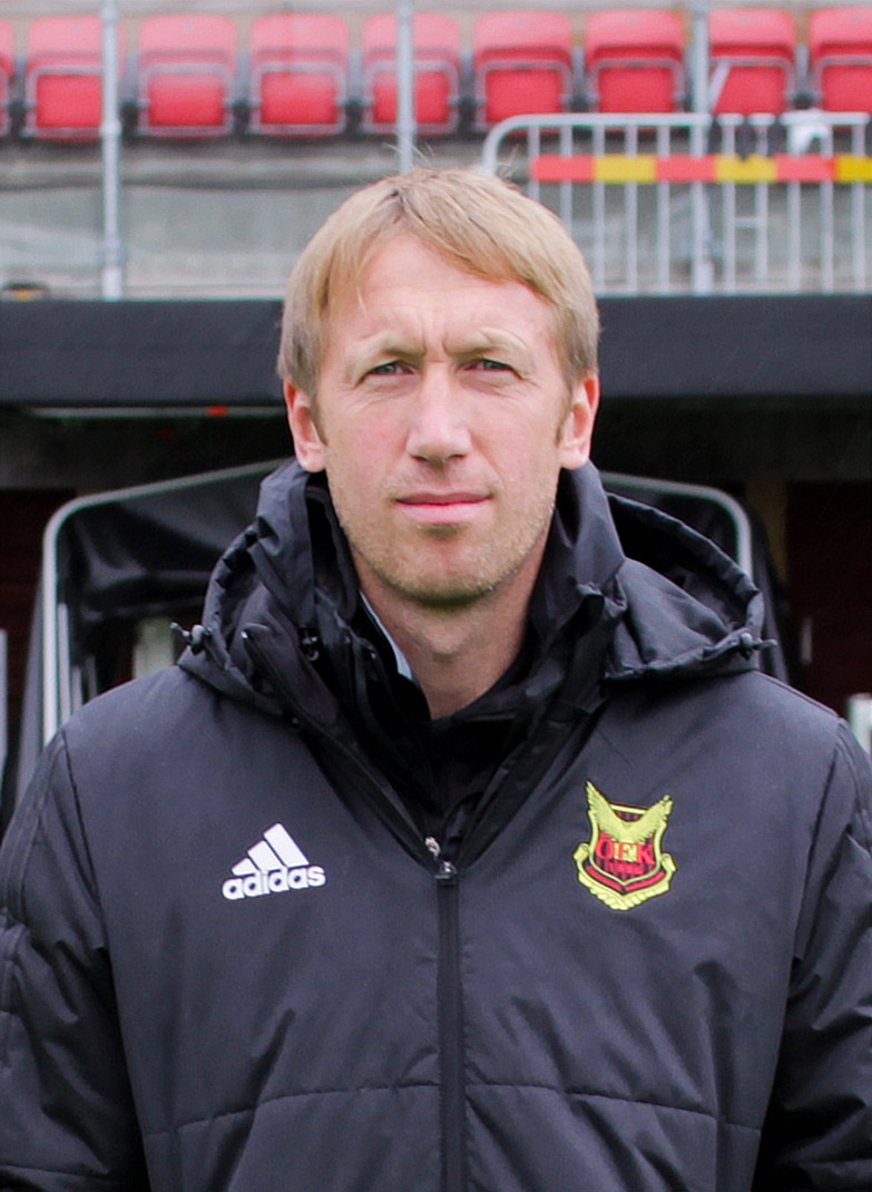 Graham Potter at Östersunds FKs stadium Jämtkraft Arena.